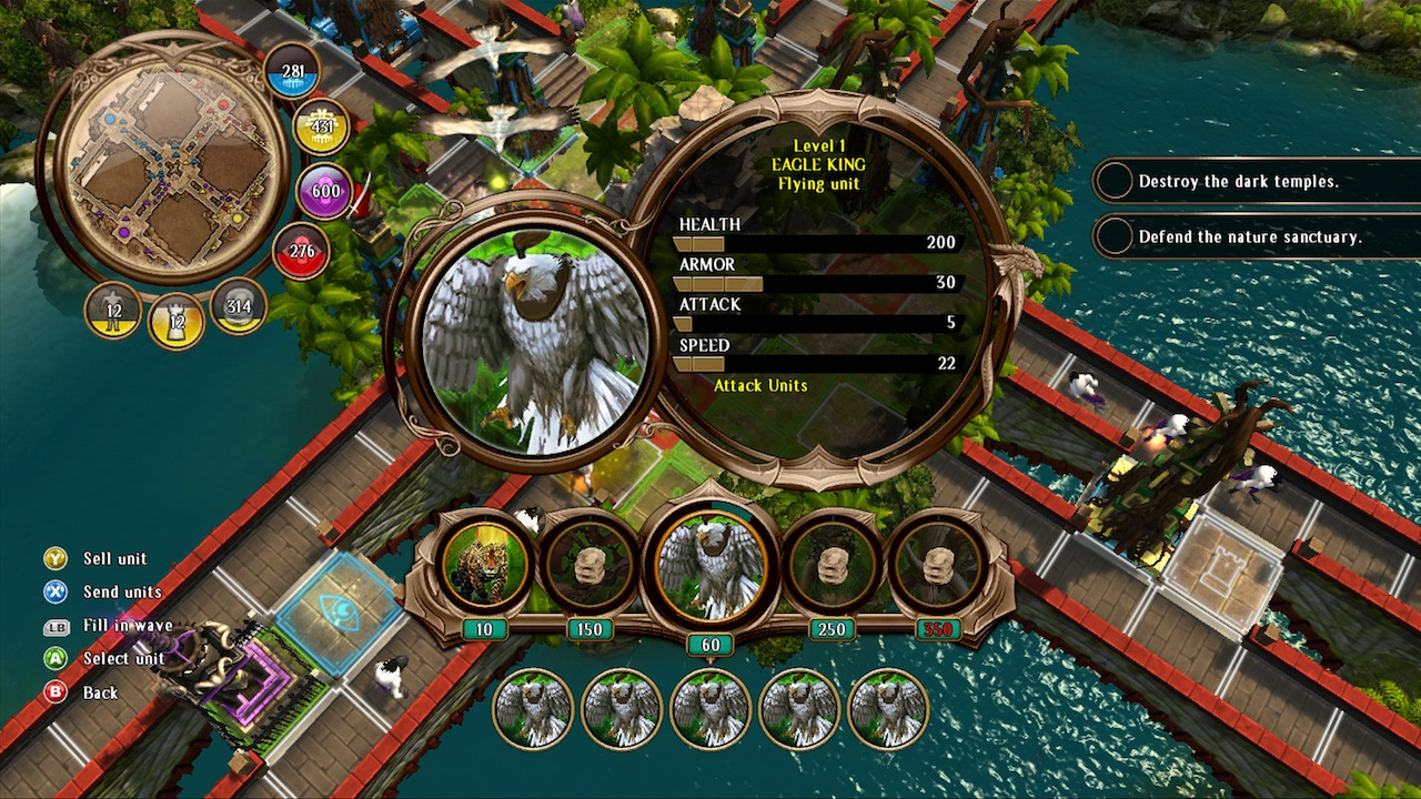 Screenshot from the video game Defenders of Ardania